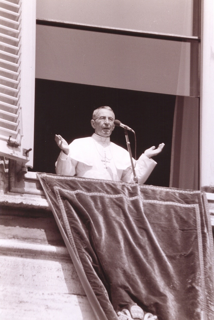 Pope John Paul I from window